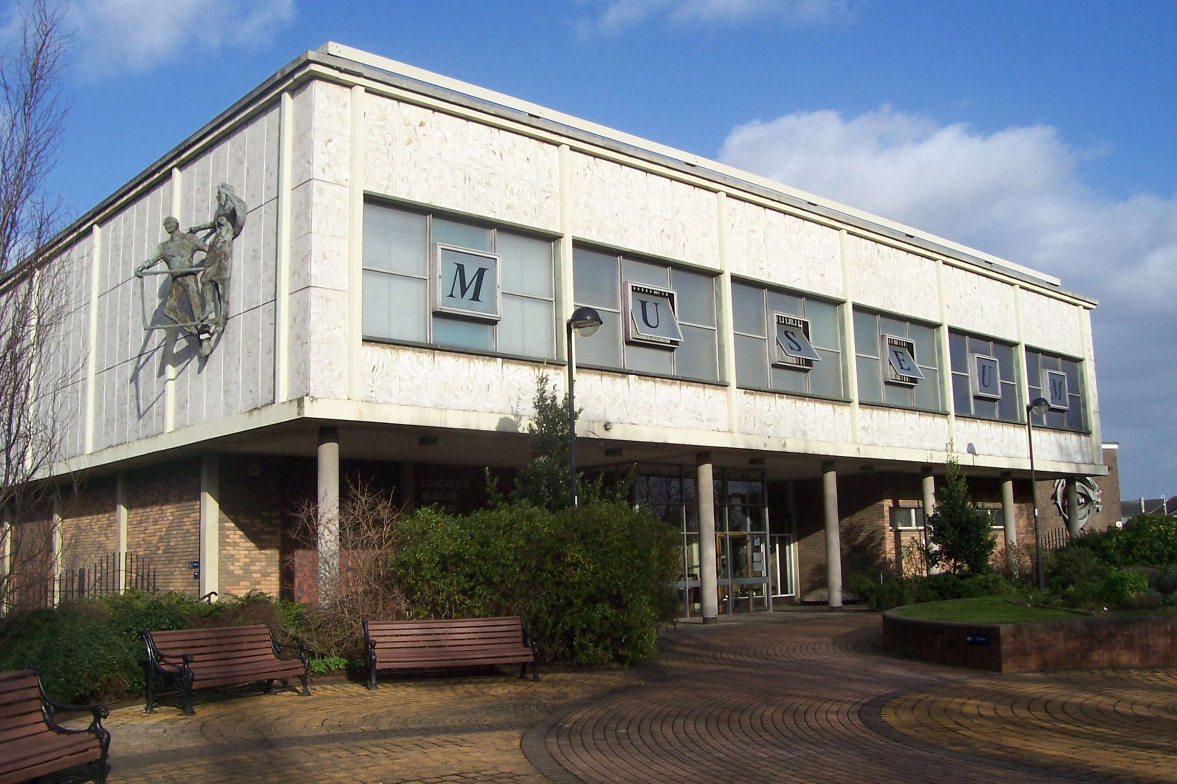 Exterior of Doncaster Museum and Art Gallery